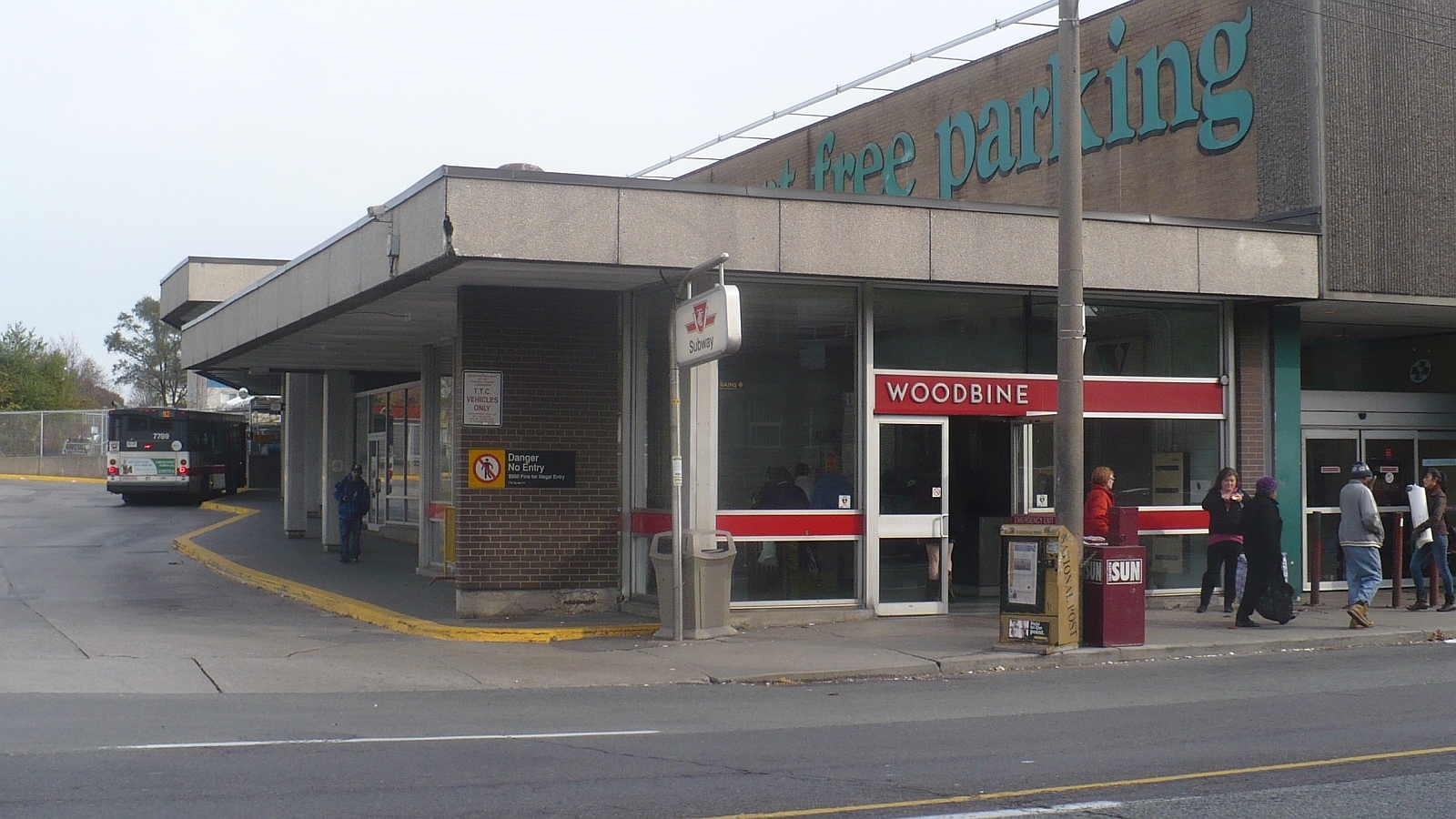 Woodbine subway station in Toronto